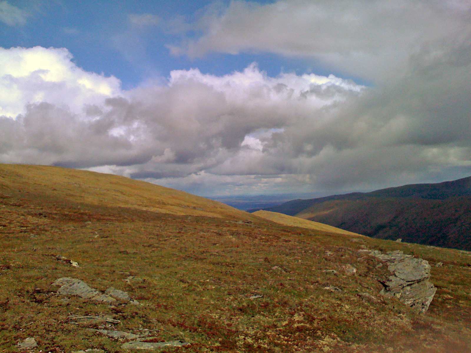 Eagle Summit, Alaska, in August 2008, looking north toward Central, Alaska.